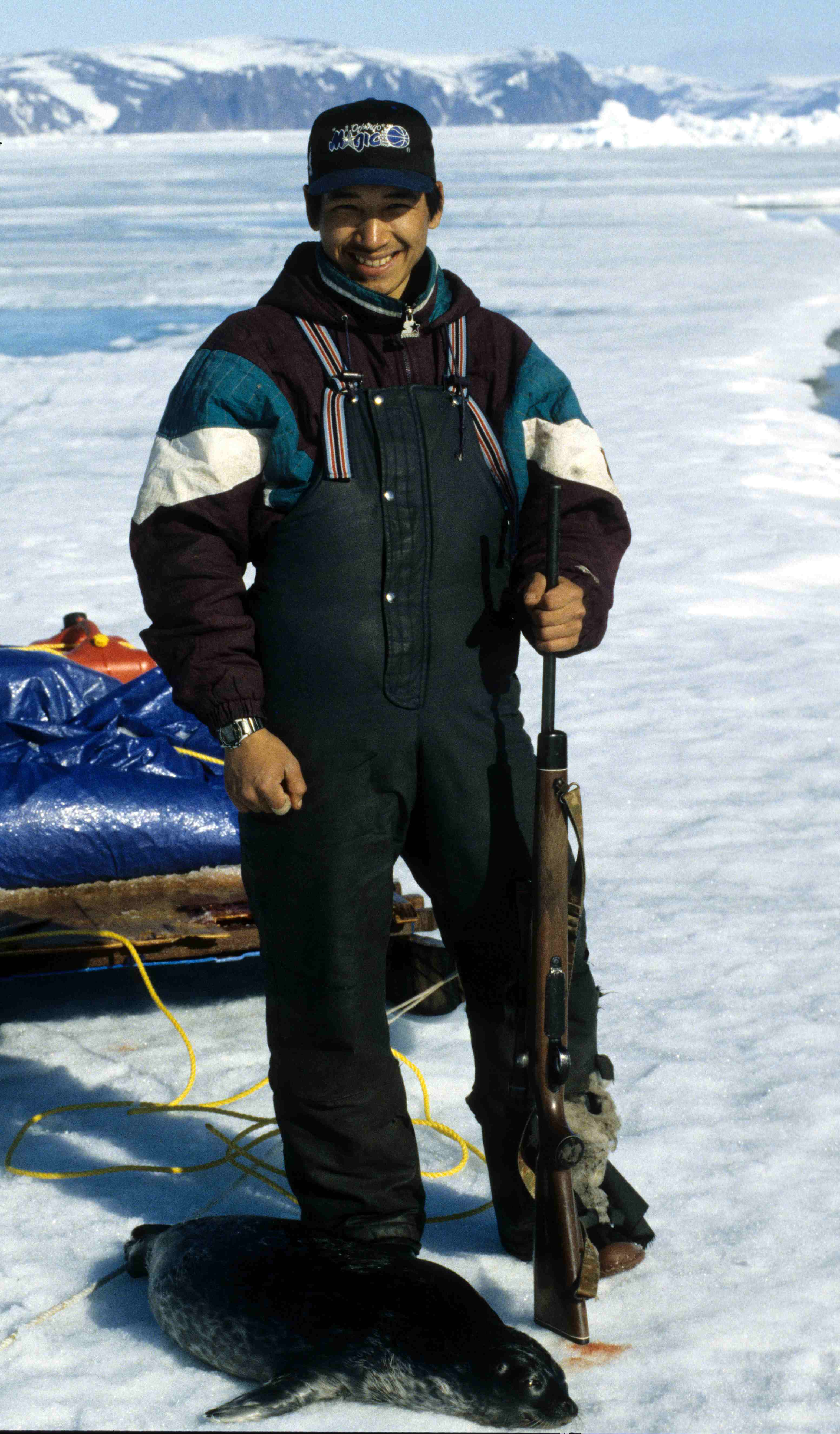 Seal hunter at the floe edge (Nunavut Territory, Canada)